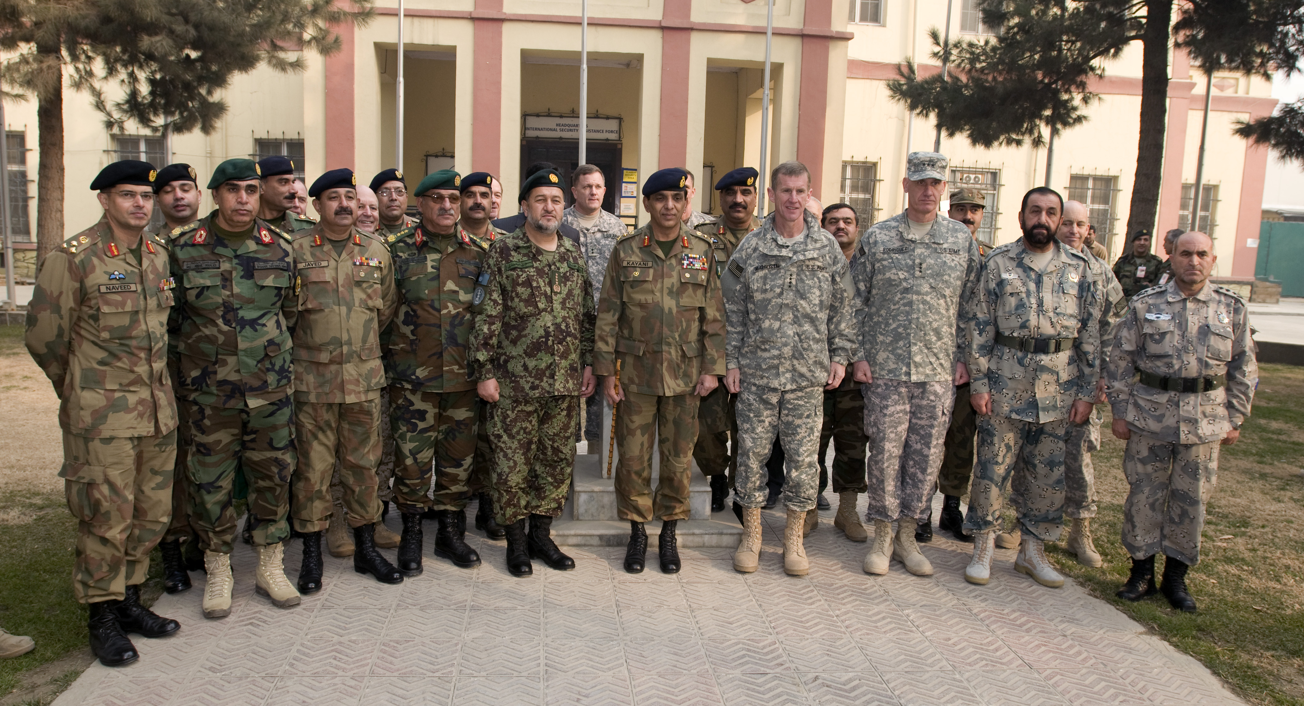 Gen. Bismullah Mohammadi of the Afghan National Army, Gen. Ashfaq Parvez Kayani Chief of Army Staff of the Pakistan Army and Gen. Stanley A. McChrystal, Commander of NATO International Security Assistance Force and U.S. Forces Afghanistan (Center) gather for a group photo with senior military and diplomatic representatives from Afghanistan, Pakistan and the United States prior to the 29th Tripartite Commission held at NATO International Security Assistance Forces Headquarters, Kabul, Afghanistan. Photo by U.S. Army Sgt. David E. Alvarado. (RELEASED)